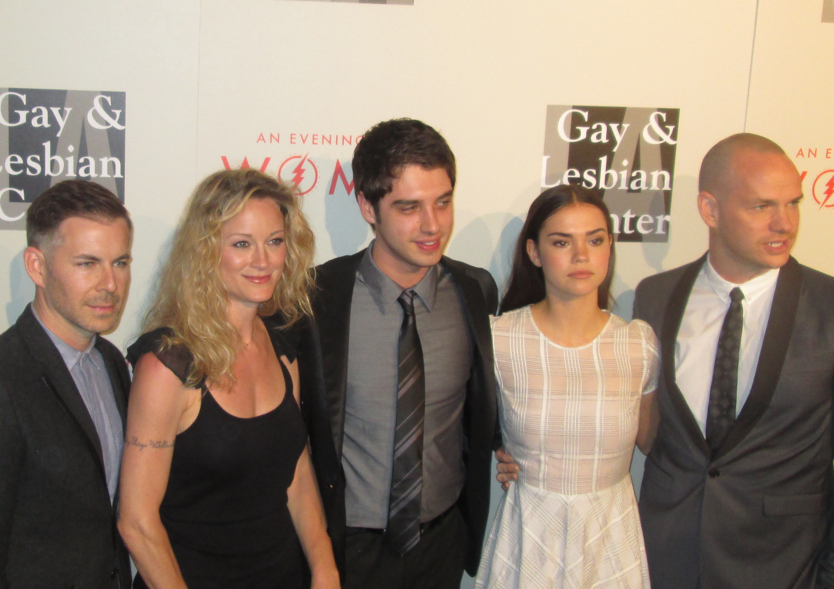 The Cast of 'The Fosters' at An Evening with Womenevent